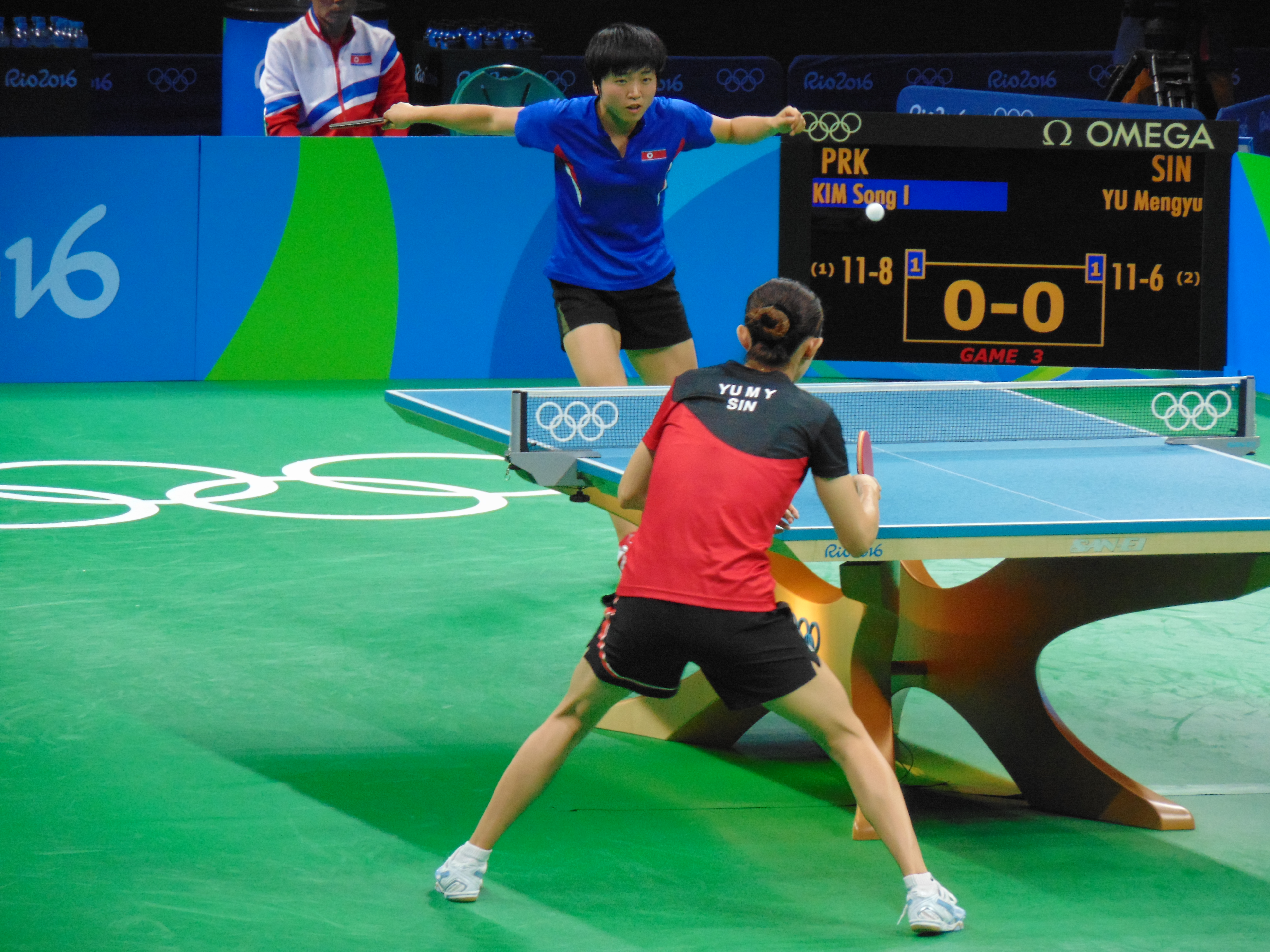 Rio 2016 - Women's table tennis quarter finals